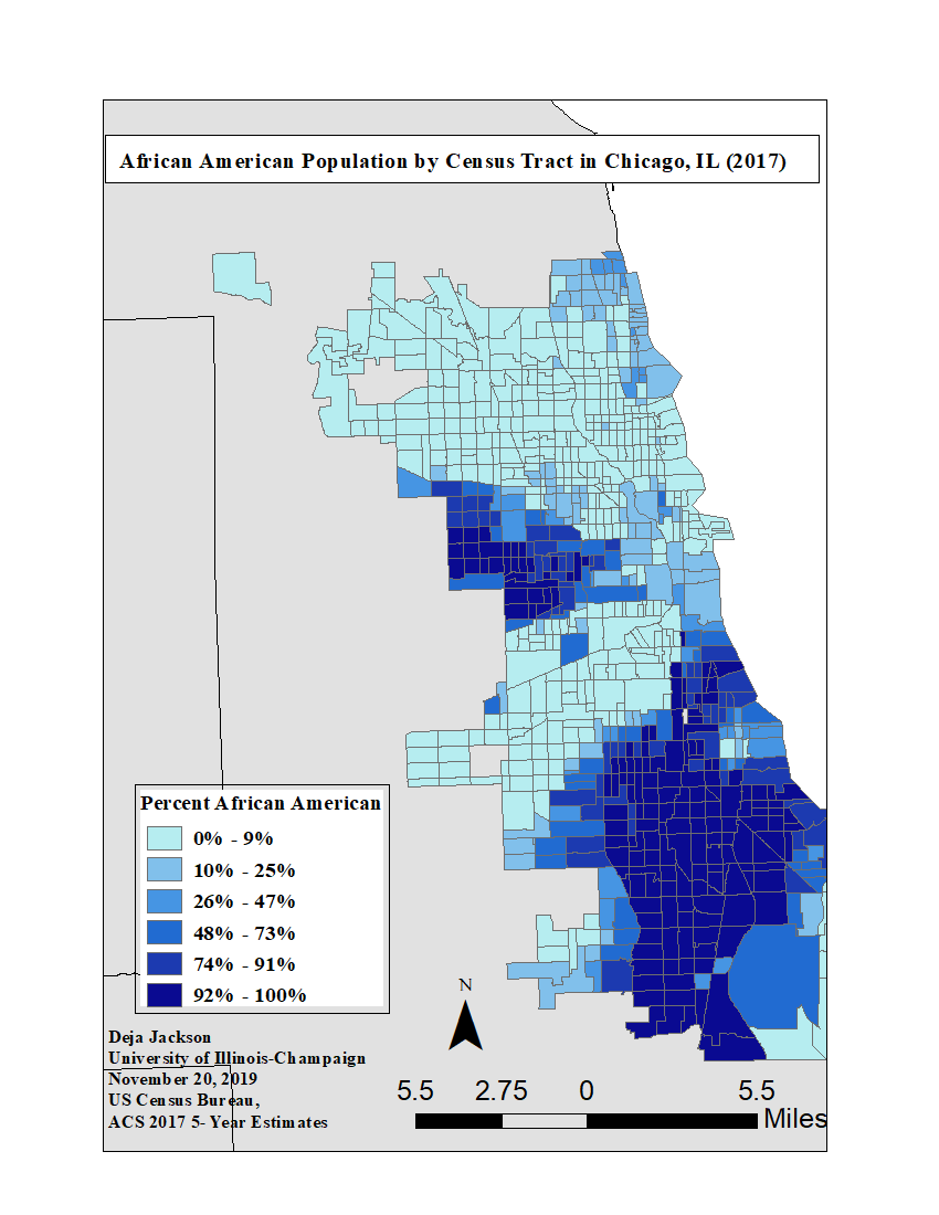 Thematic map